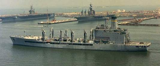 USNS Henry J. Kaiser (T-AO-187): the U.S. Navy fleet replenishment oiler at Hampton Roads, Virginia.